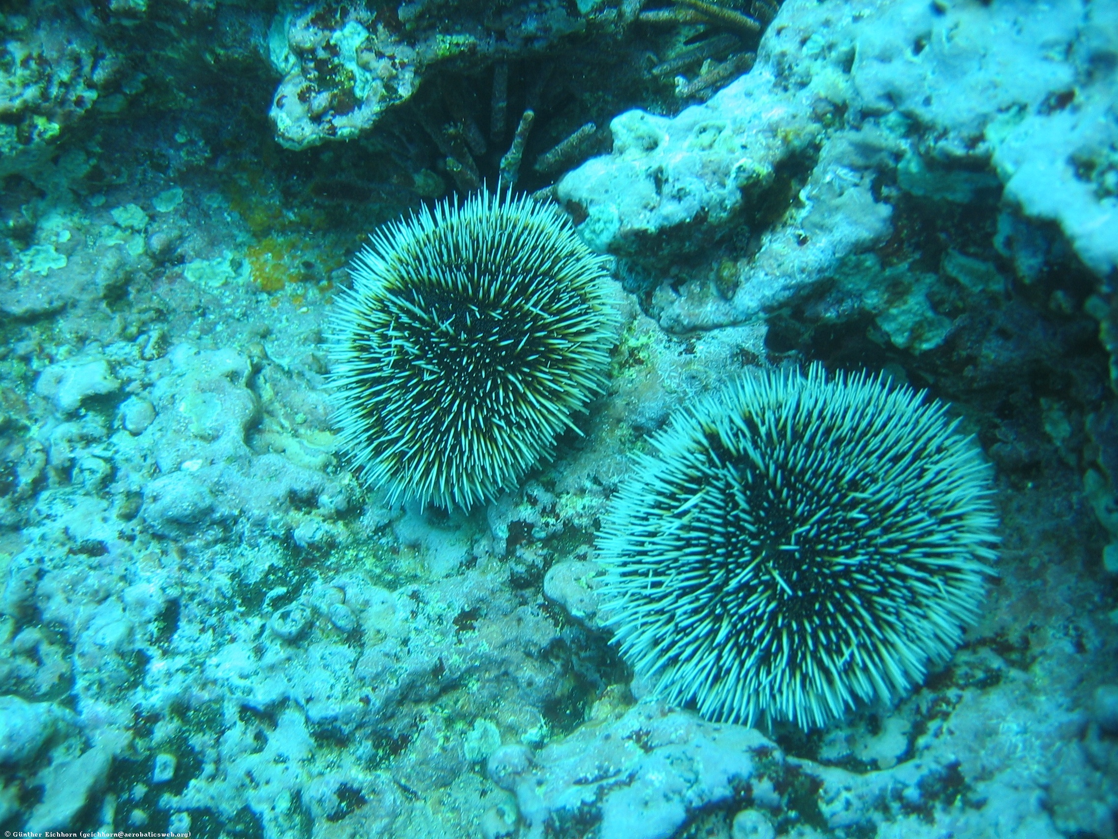 White Sea Urchin (Tripneustes depressus).